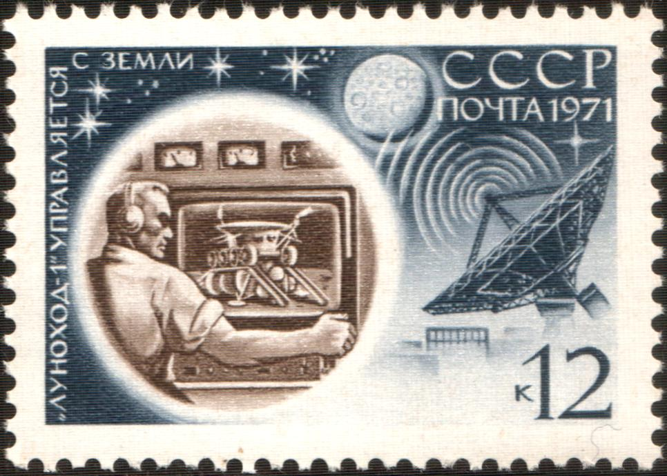 USSR stampː Control Room and Radio Telescope. Seriesː Soviet Luna 17 Spacecraft Carried Lunokhod 1 Rover to the Moon (1970.11.10-17)